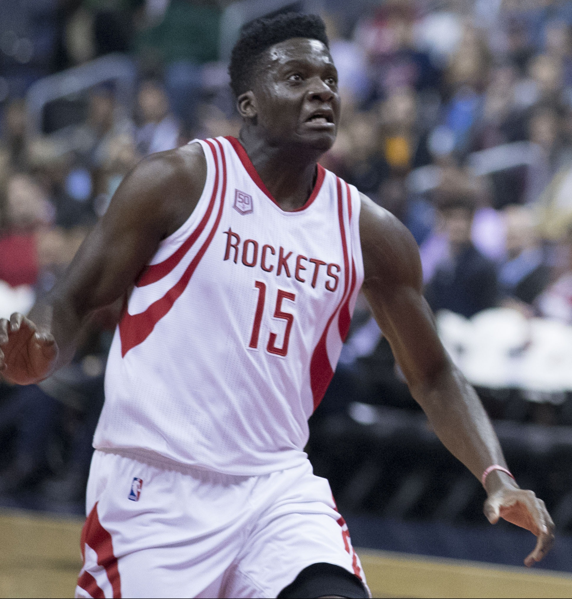 Clint Capela in a game, 2016